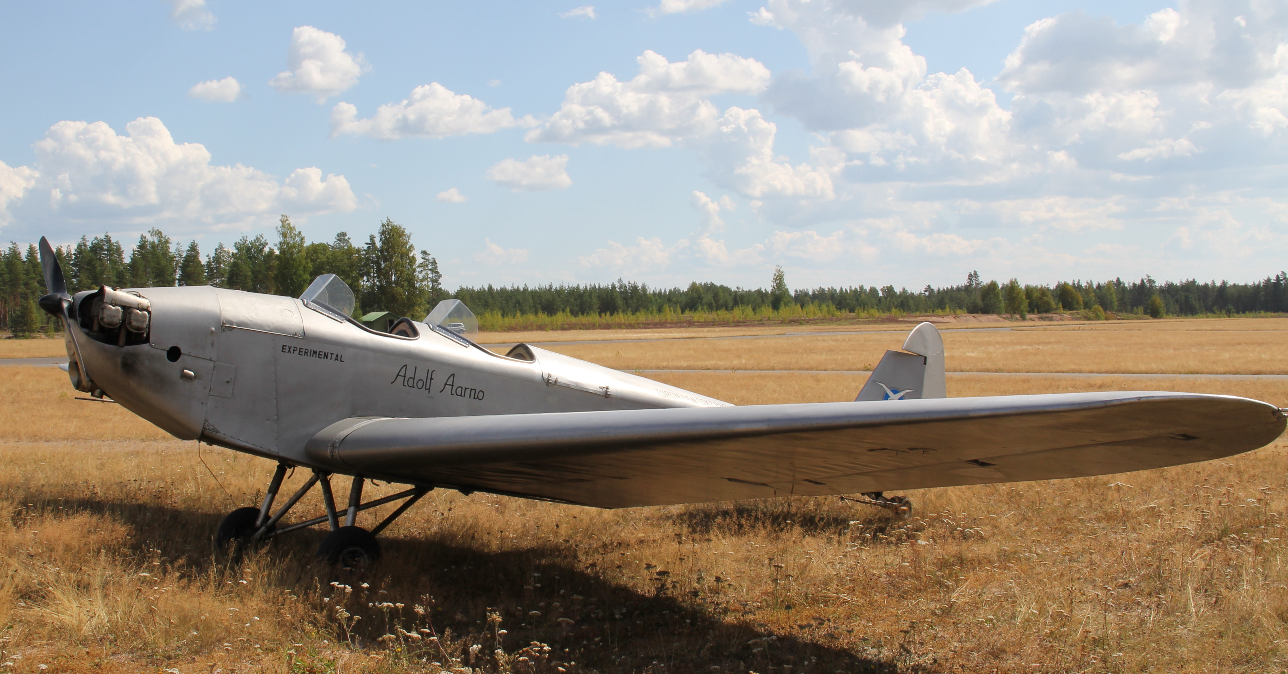 Klemm Kl 25 D VII R, OH-ILI "Adolf Aarno", restored aircraft at Oripää Airfield, Oripää, Finland. Photo taken during Oripää Air Show 2013.